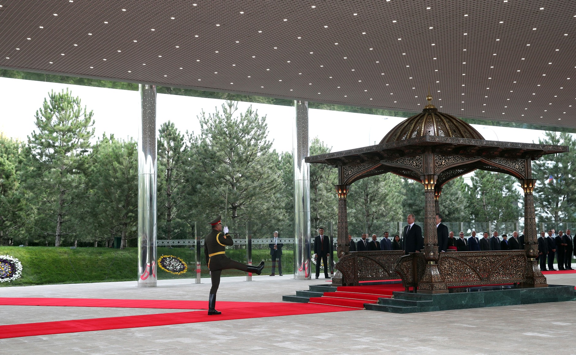 Vladimir Putin had talks with President of Uzbekistan Shavkat Mirziyoyev in Tashkent.